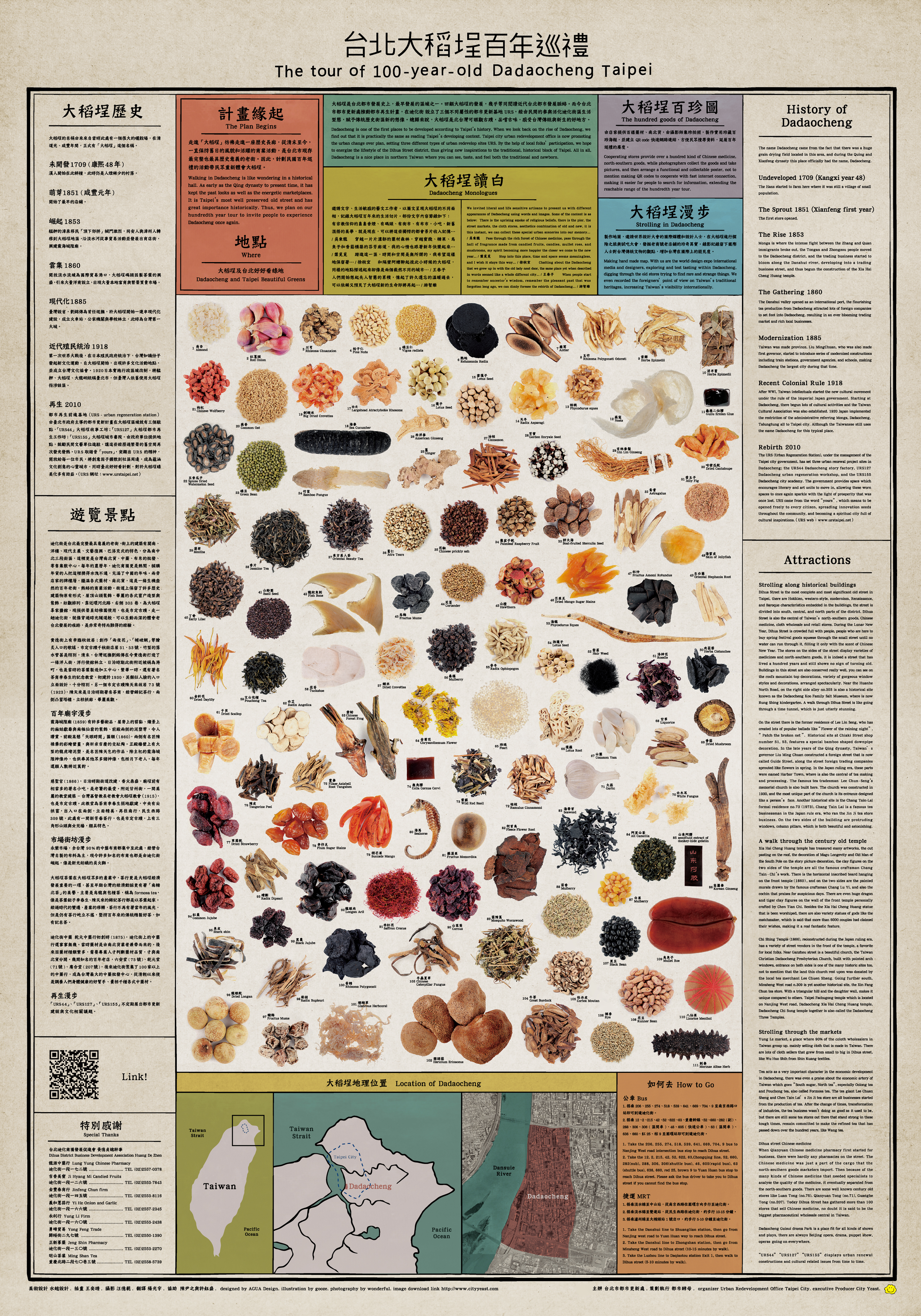 Dadaocheng is one of the first places to be developed according to Taipei’s history. When we look back on the rise of Dadaocheng, we find out that it is practically the same as reading Taiwan Taipei’s developing context. We hope to energize the lifestyle of Dadaocheng, the nice and reserved place in northern Taiwan where you can see, taste, and feel both the traditional and newborn. So we Cooperating stores provide over a hundred kind of Chinese medicine, north-southern goods, while photographers collect the goods and take pictures, not to mention making QR codes to cooperate with fast internet connection, making it easier for people to search for information, extending the reachable range of the hundredth year tour.